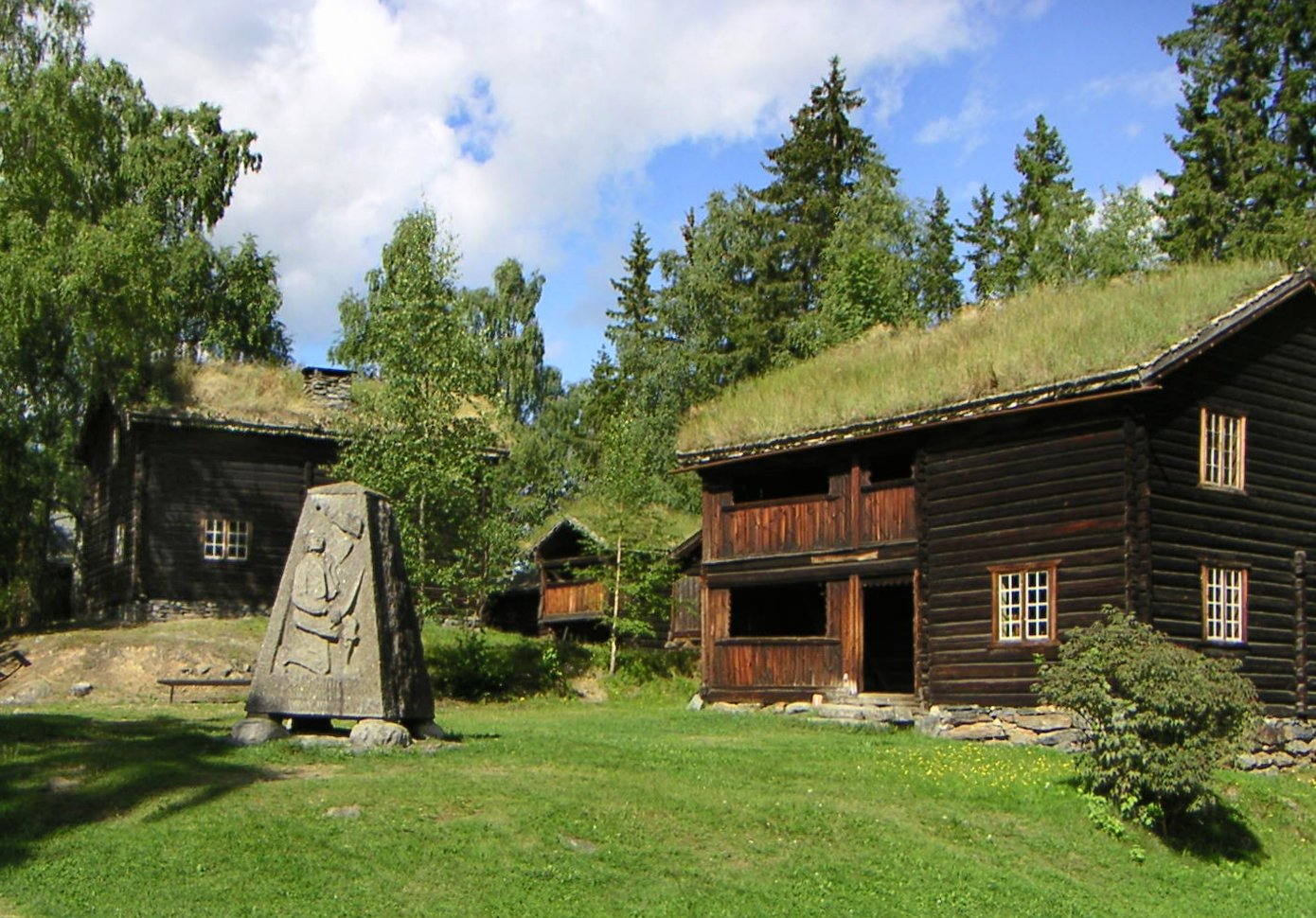 Valdres Folkemuseum, sculpture in memory of Jørn Hilme in front, building from Brenn to the left, building from Prestøyn to the right.